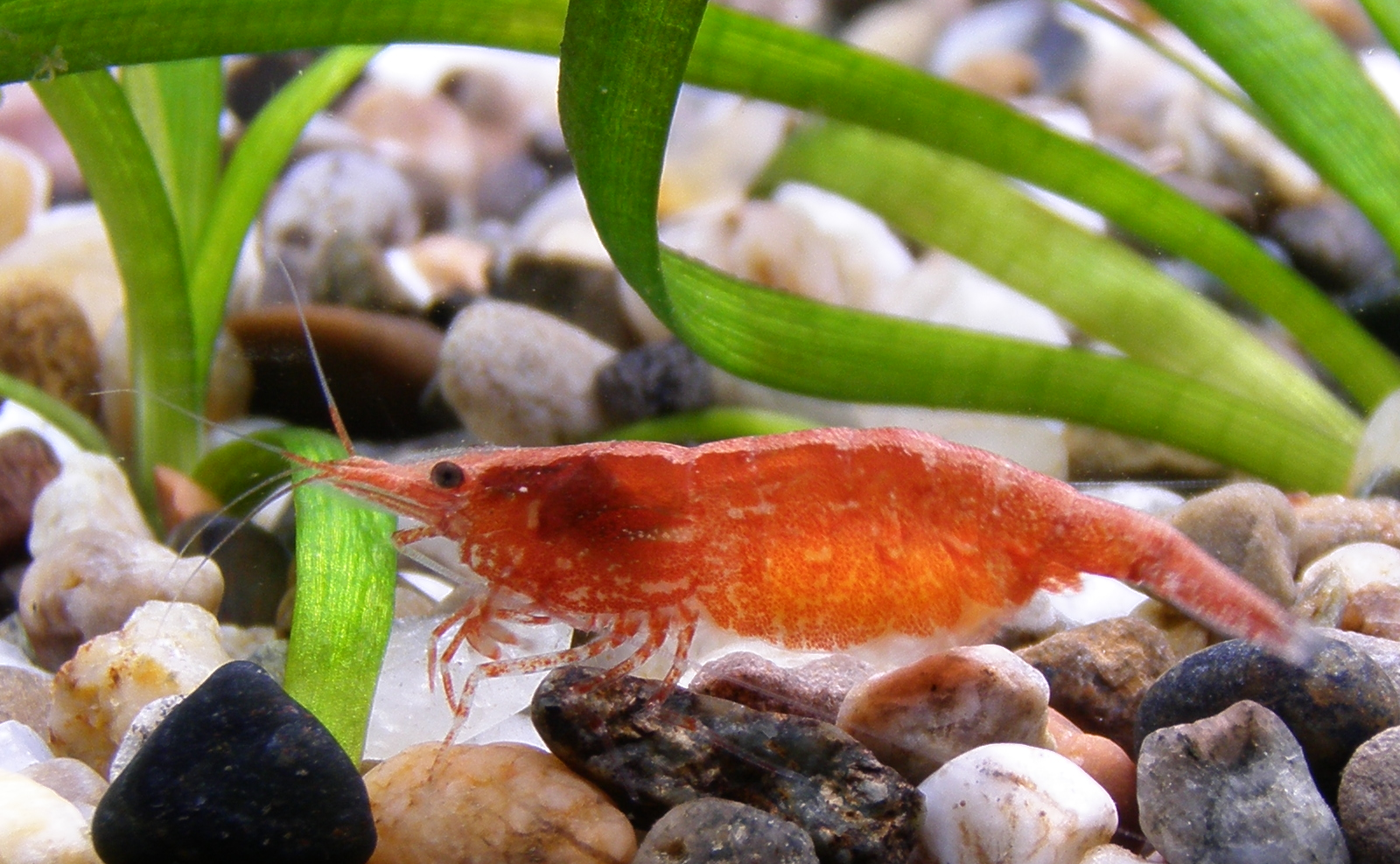 Neocaridina Heteropoda female carrying eggs